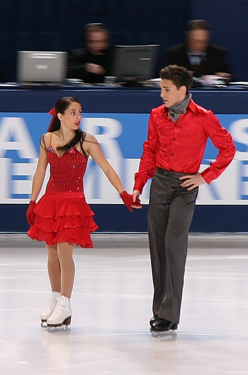 Isabella Cannuscio and Ian Lorello at the 2010 Trophée Eric Bompard